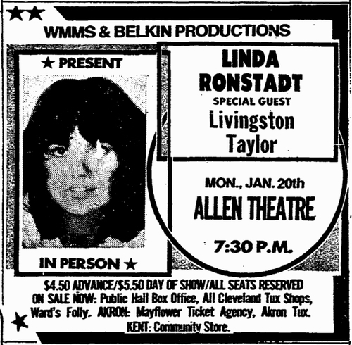 Print ad for Linda Ronstadt concert